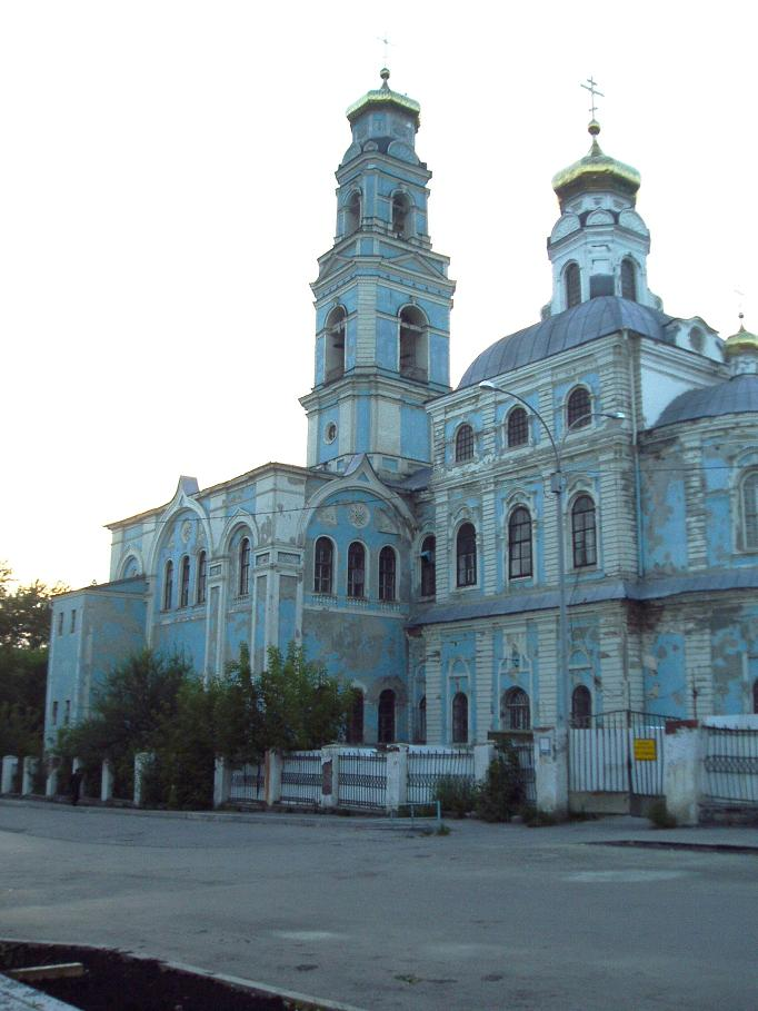 The Ascension church (1792-1818) in the Russian city of Yekaterinburg was one of the few prominent orthodox churches that wasn't destroyed by the communists in the 30s, but, as of 2005, stands in desrepair and sharp contrast to the Church on the Blood on the other side of the road. Photo taken in summer 2005